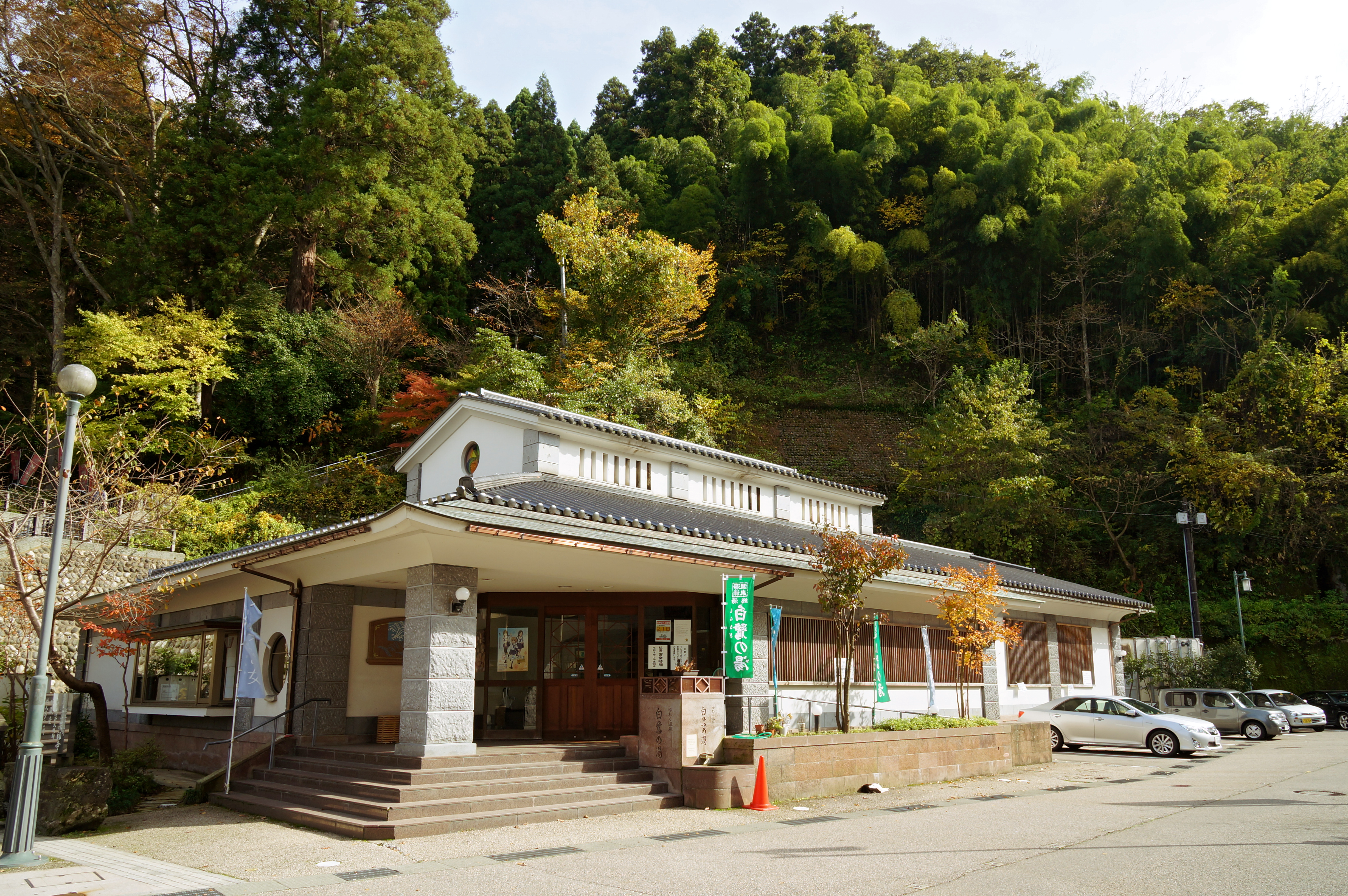 At Yuwaku Onsen in Kanazawa, Ishikawa prefecture, Japan.